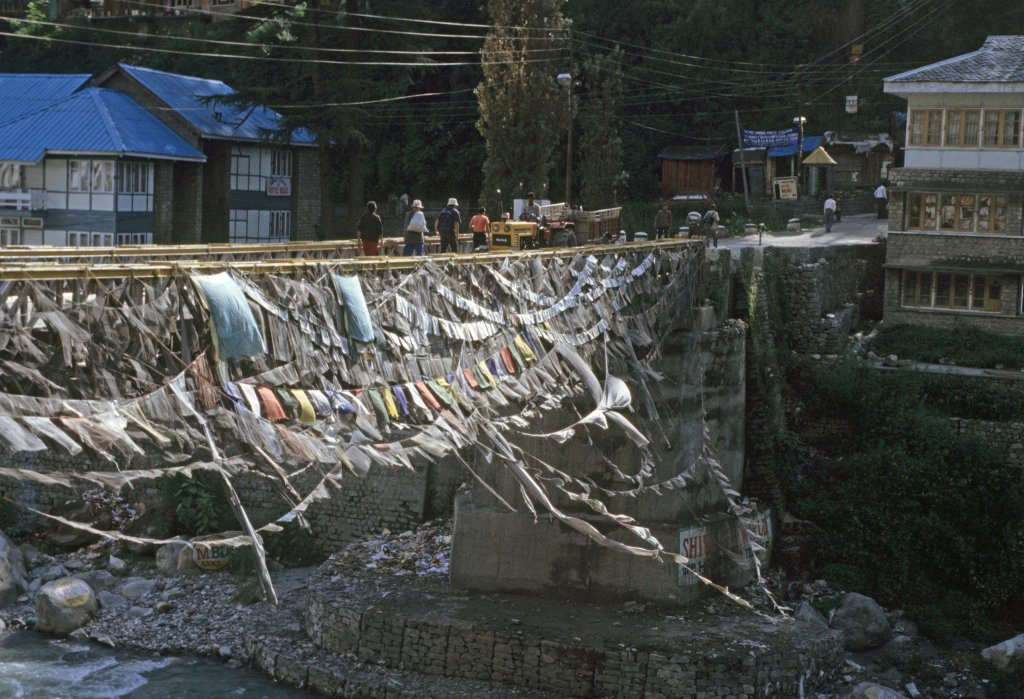 This photo was taken by Jonathan Claybaugh in August of 2000.